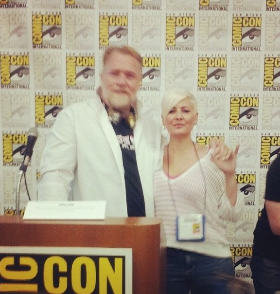 Erin Fitzgerald at the Monster High Panel at San Diego Comic Con 2014 standing with Monster High Producer Audu Paden